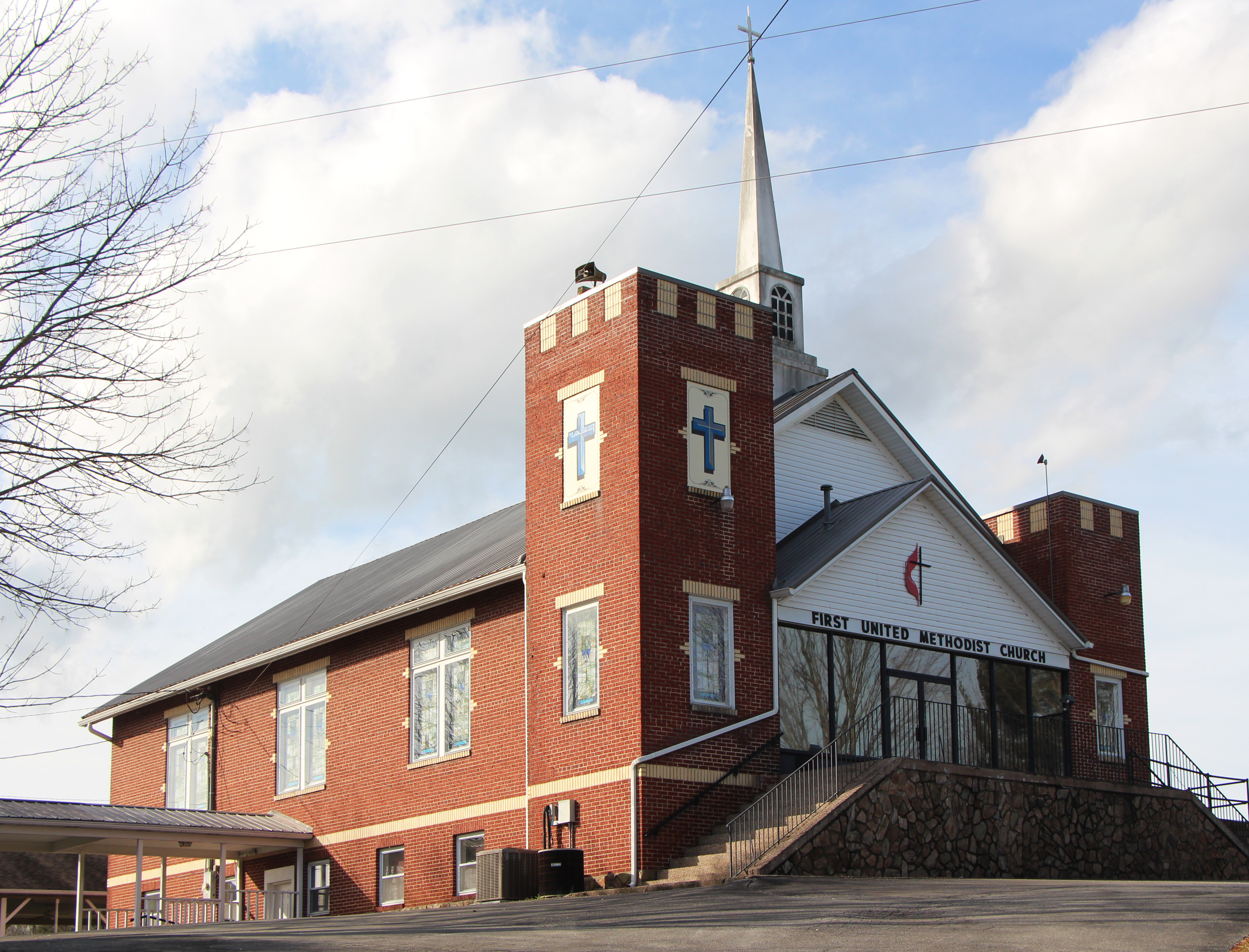 Bulls Gap Methodist Church, 113 Church Street, Bulls Gap, TN